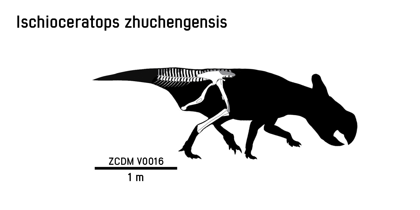 Holotype ZCDM V0016